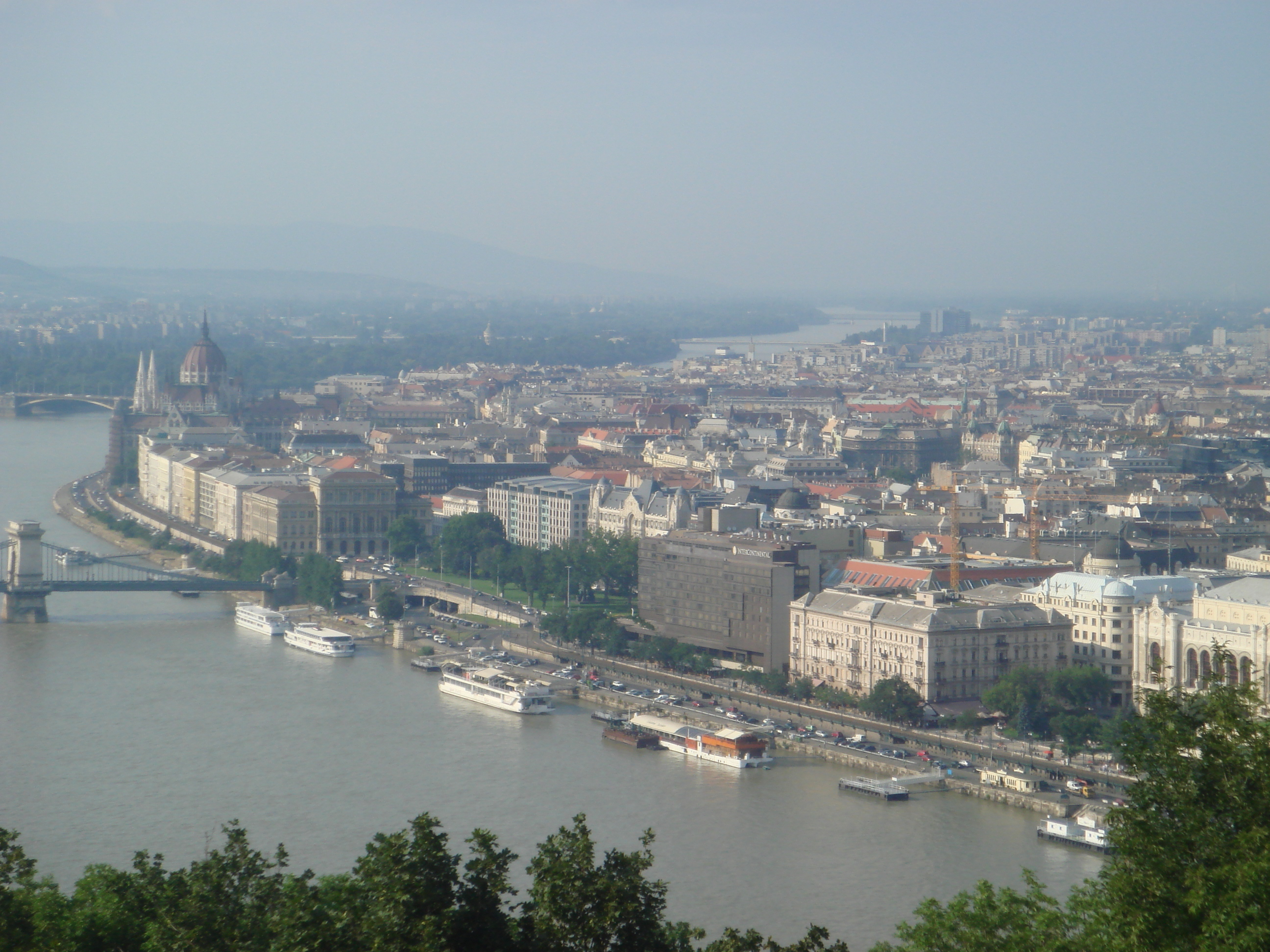 The Pest region of Budapest over the Danube River.